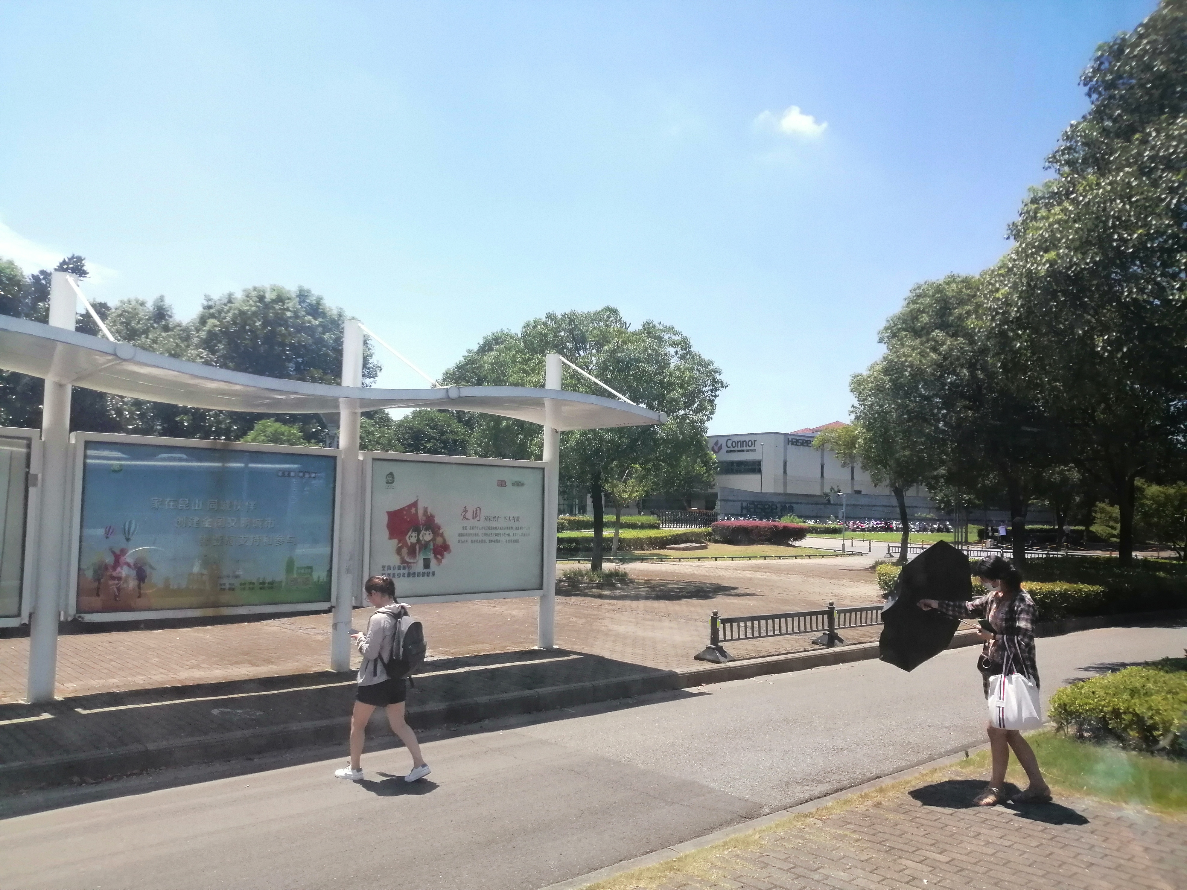 Taken from the view of Route C2. 中文（中国大陆）: 神舟电脑昆山工业园